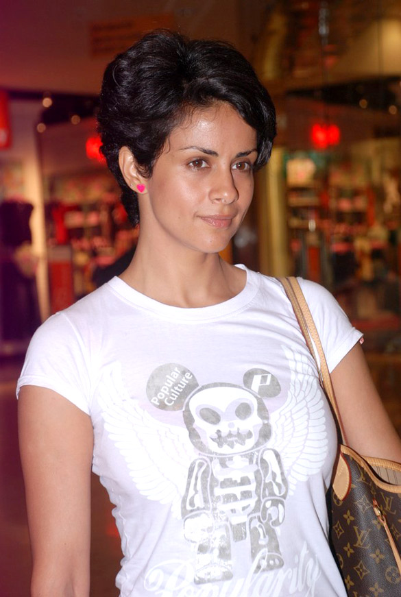 Gul Panag at Promotions of 'Fatso' at Infiniti Mall